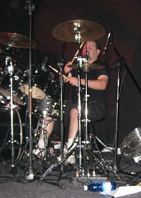 Napalm Death drummer